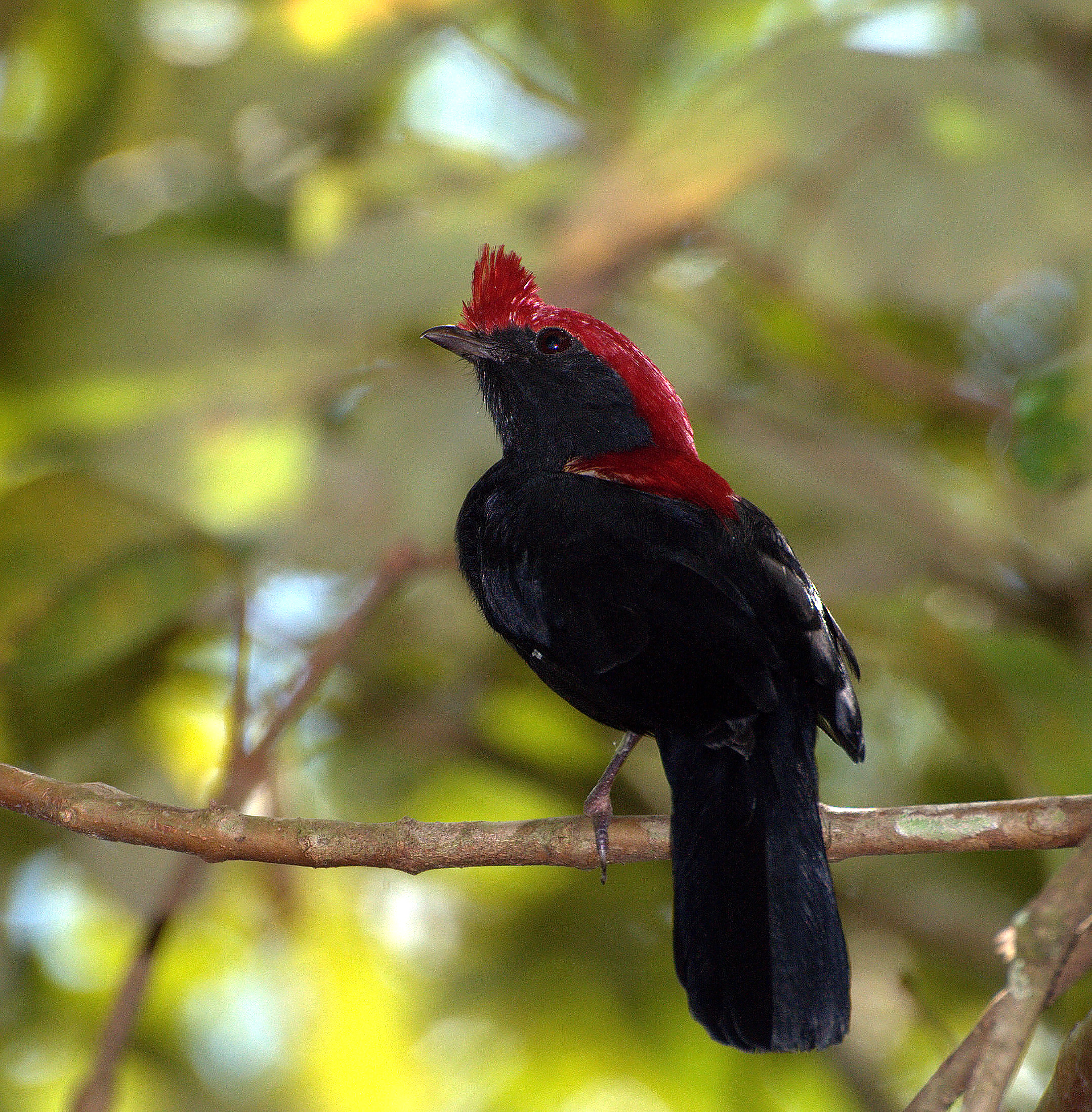 A male Helmeted Manakin in Piraju, São Paulo, Brazil.